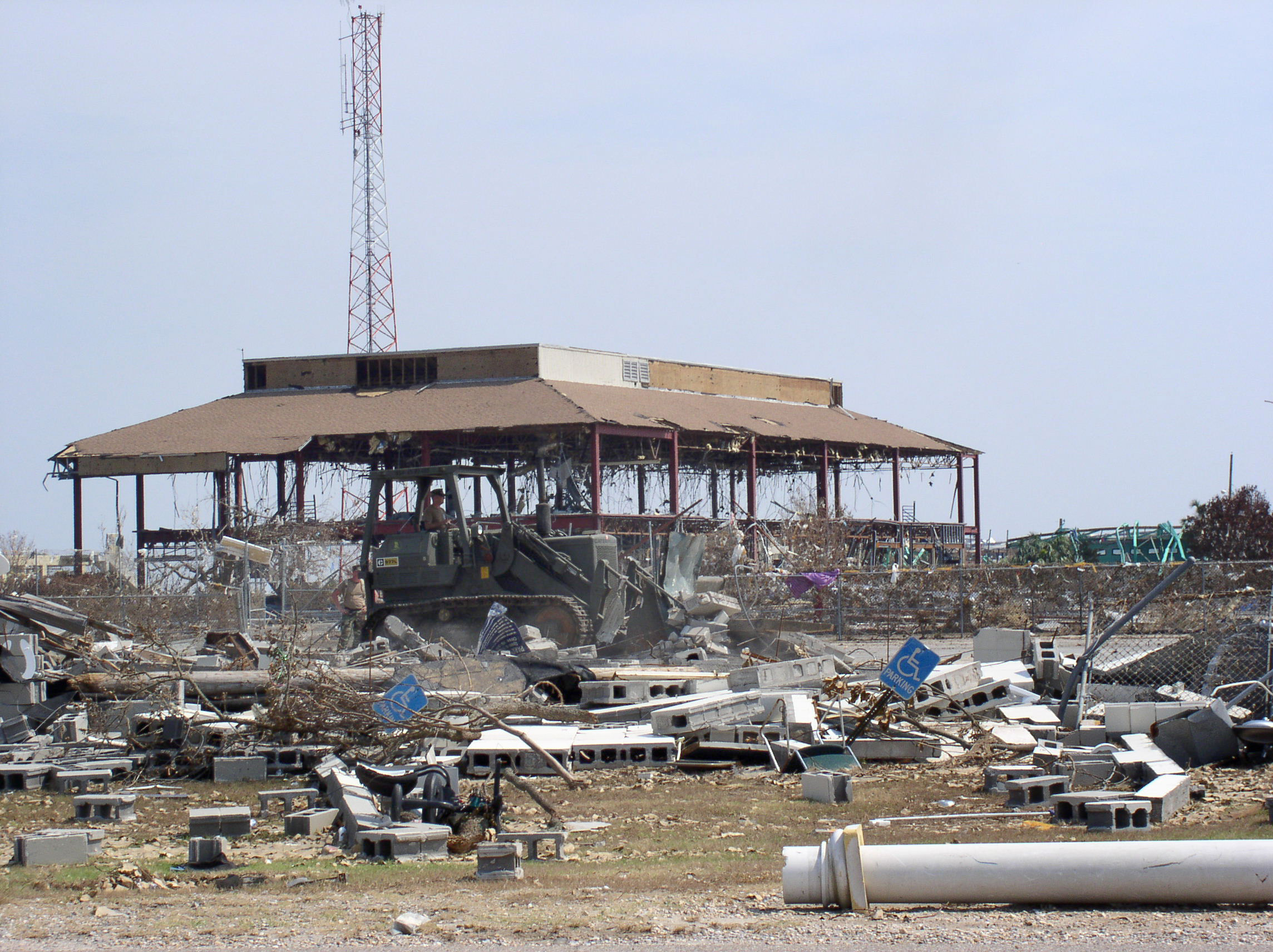 Gulfport, Miss. (Sept. 2, 2005) – A U.S. Navy Seabee uses a bulldozer to remove debris from Hurricane Katrina on board on board Naval Construction Battalion Center (NCBC) Gulfport, Miss. NCBC functions as a support for operating units of the Naval Construction Force. It supports various Naval Mobile Construction battalions, the Naval Construction Training Center and other smaller tenant activities. A Category 4 hurricane, Katrina came ashore on Aug. 29 near the Louisiana bayou town of Buras. U.S. Navy photo (RELEASED)